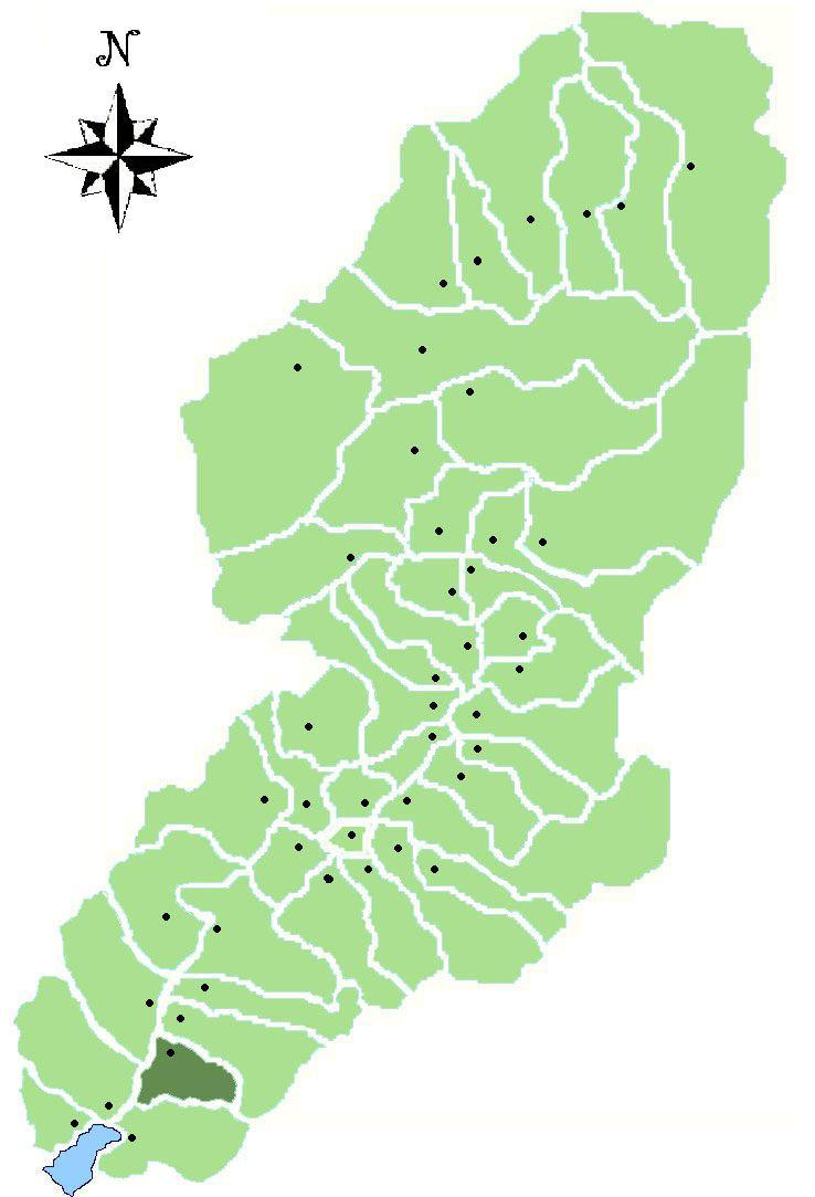 Map of the Comune di Pian Camuno, Valle Camonica